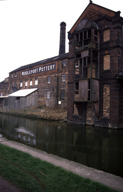 Helpfully labelled - Middleport Pottery Home of Burgess, Dorling & Leigh. Traditional working pottery with regular factory tours and a workable steam engine.